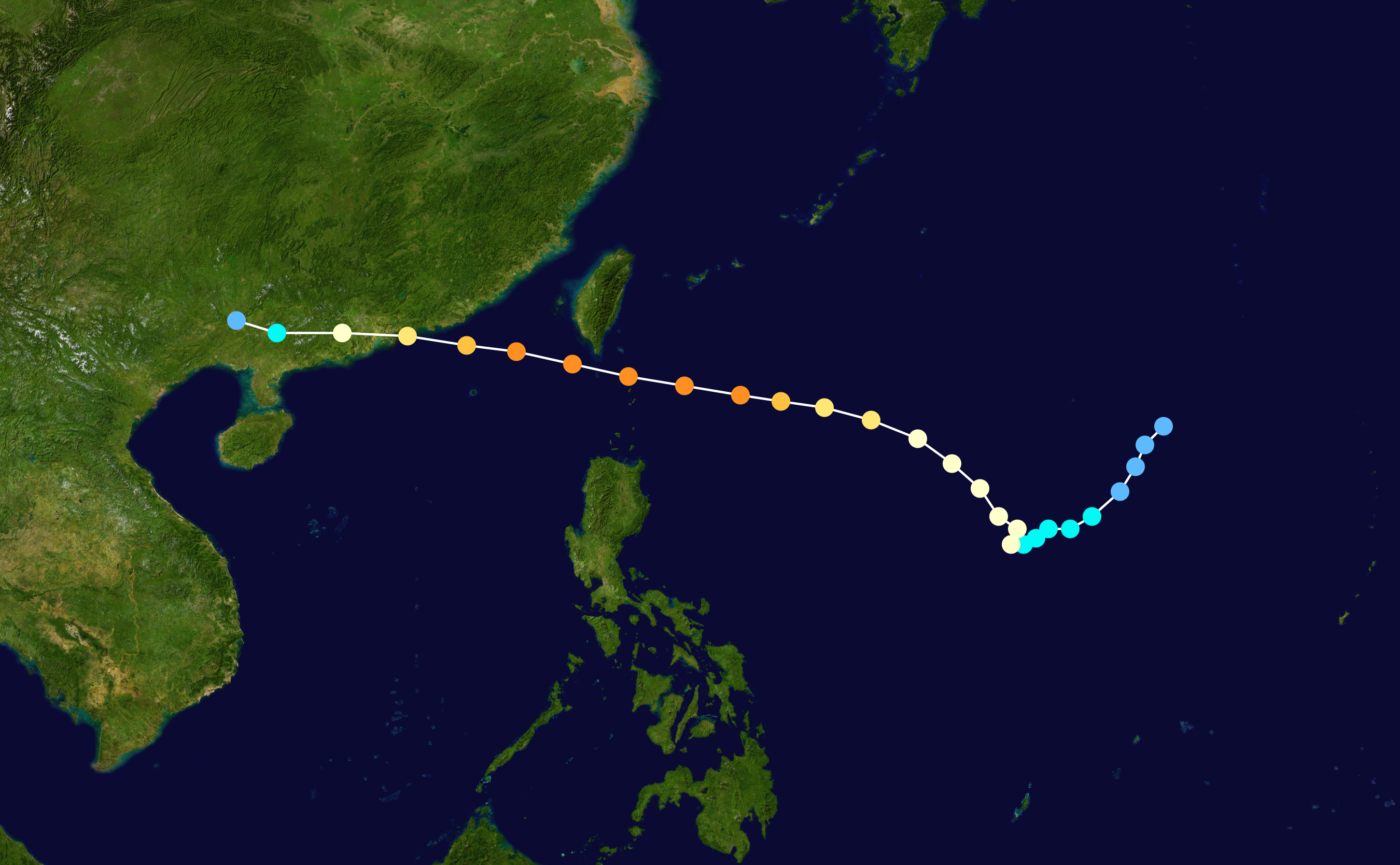 Typhoon Dujuan 2003 track. Uses the color scheme from the Saffir-Simpson Hurricane Scale.